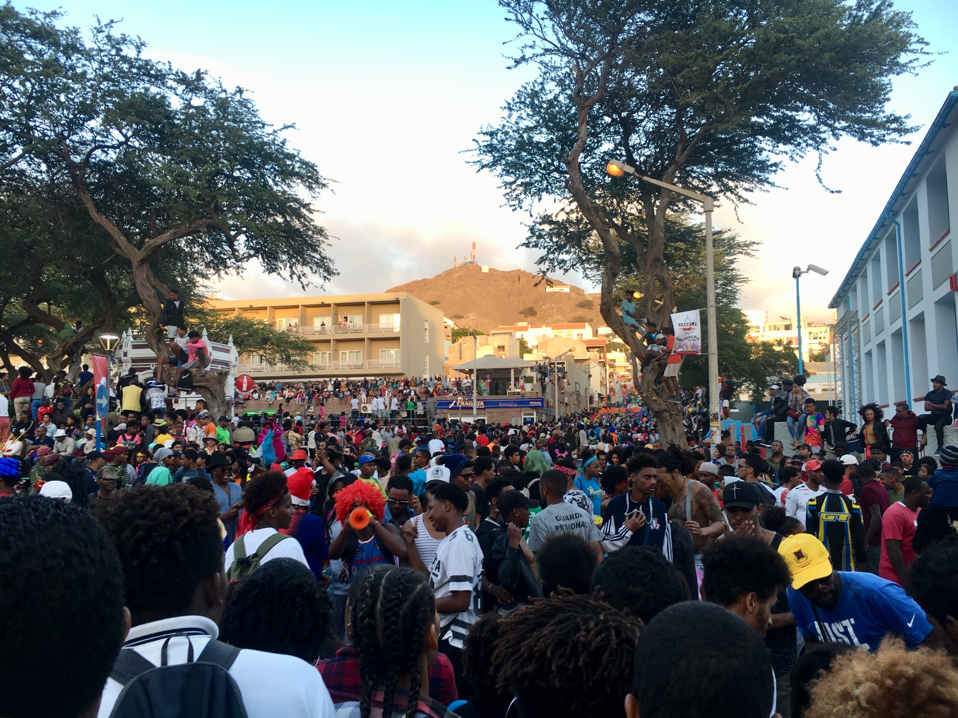 This is an image with the theme "Play" from: Cape Verde